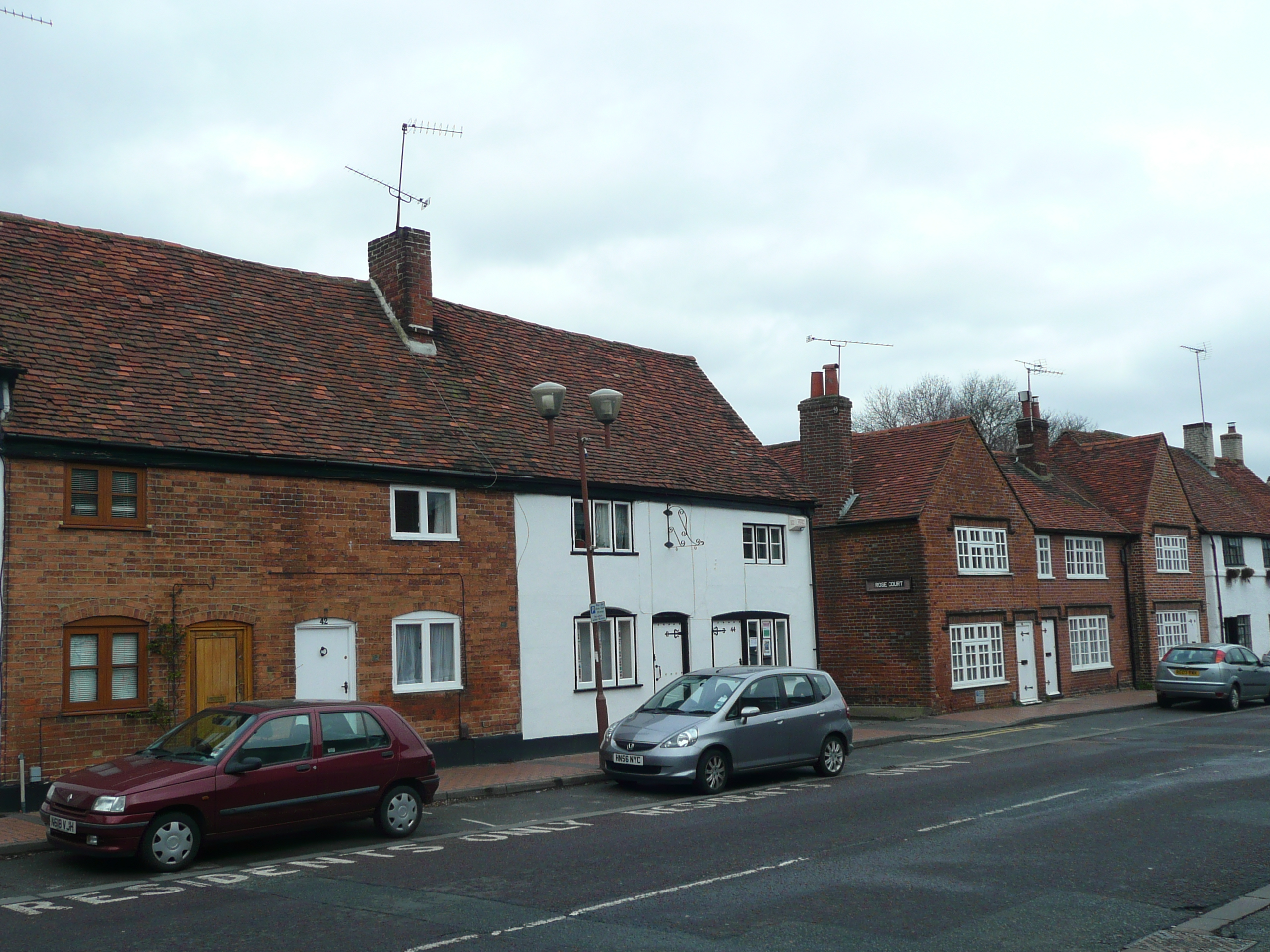 Hall Houses from late 14th to early 16th Century behind later facades in Rose Street, Wokingham